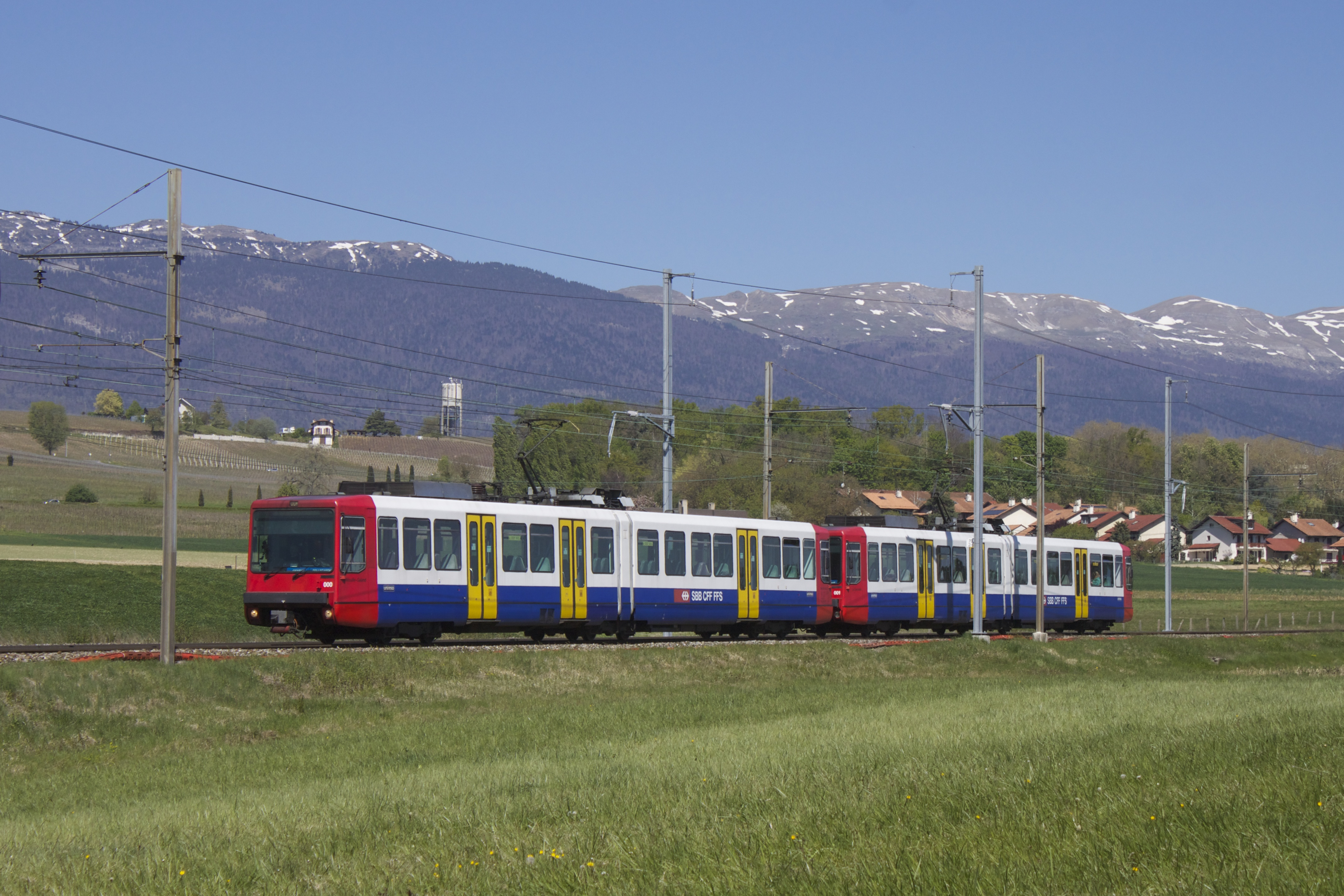 SBB CFF FFS Bem 550 000 and 001 at Satigny while running as R 96742 from Genève to Bellegarde.